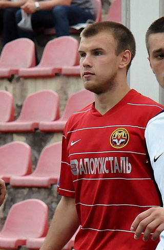 Yevhen Opanasenko Ukrainian footballer, during the game for FC Metalurh Zaporizhya